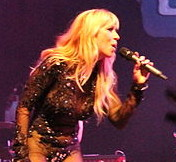 Depicted person: Noelia